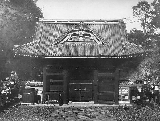 Mausoleum of Taitokuin(Tokugawa Hidetada)